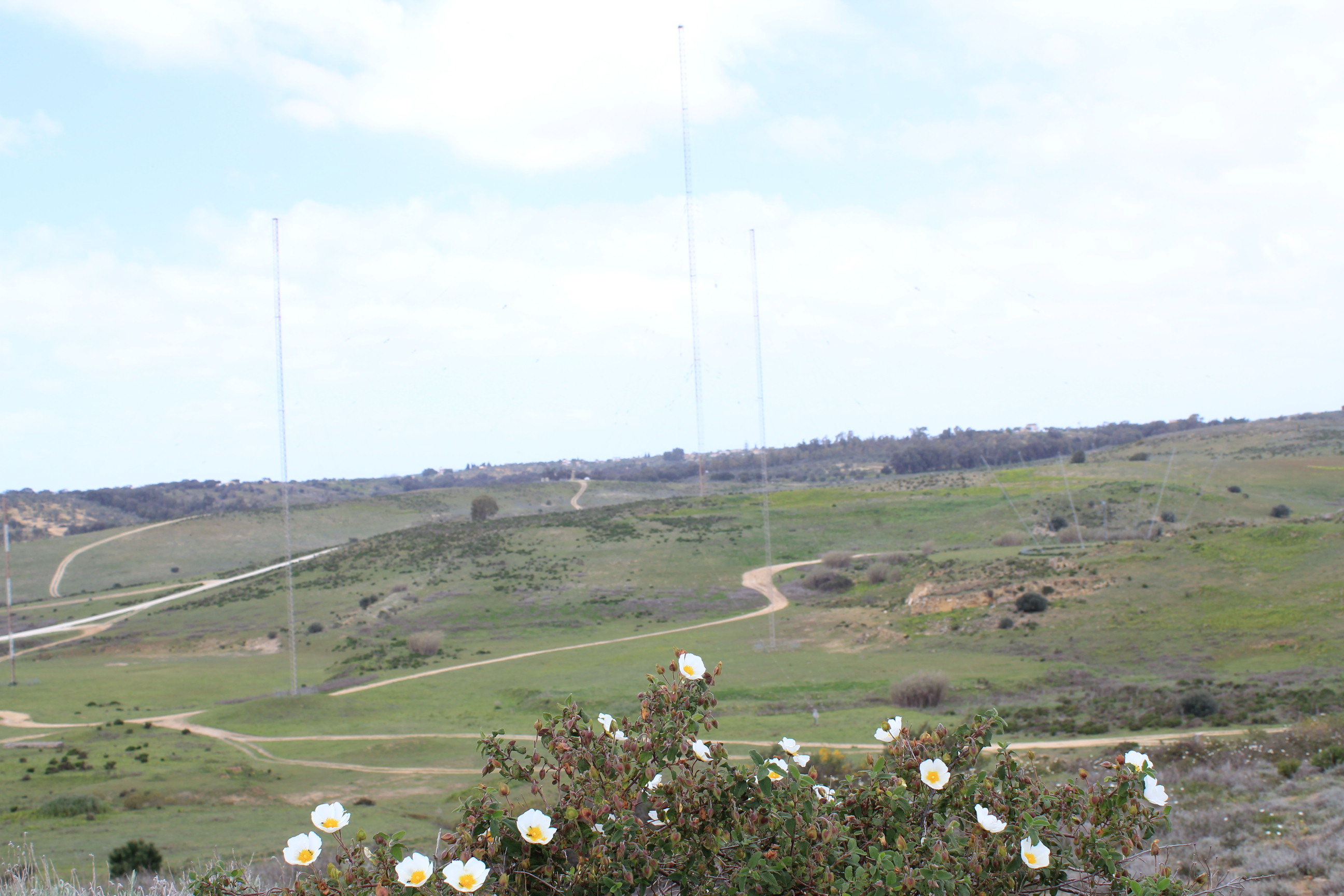 High Frequency and Low Frequency Antenna Field at NRTF Niscemi